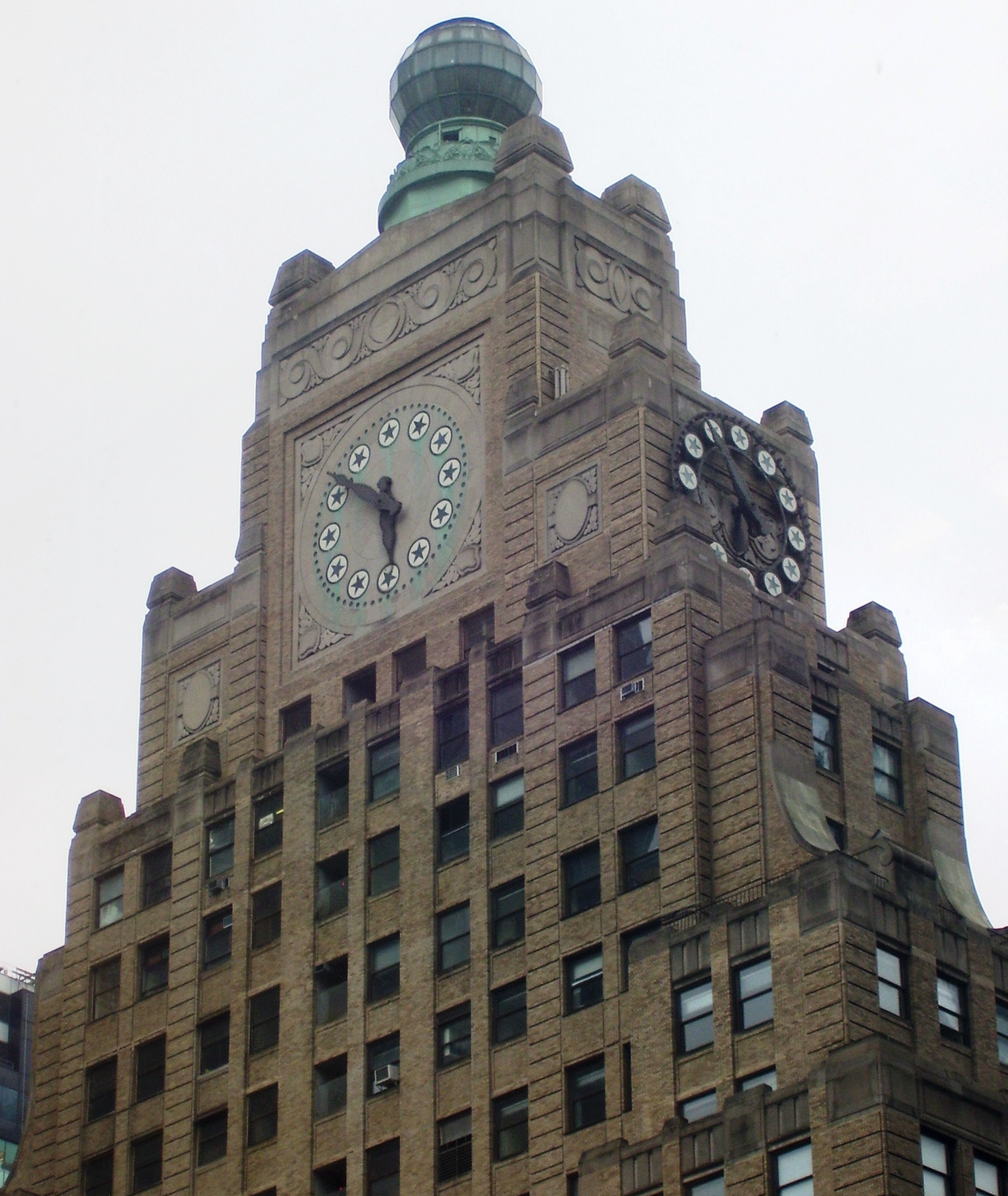 The rear (west) facade of the top of 1501 Broadway between West 43rd and 44th Streets in Times Square, Manhattan, New York City, as seen from the 9th floor of the New 42nd Street Building.